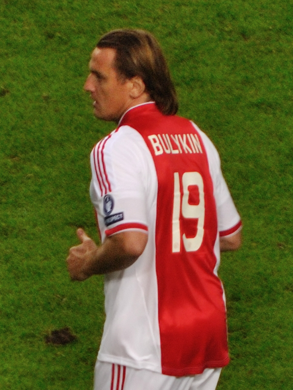 Dmitri Bulykin during Ajax - Olympic Lyon on September 14th, 2011. Photo taken from the stands (Vak 406).